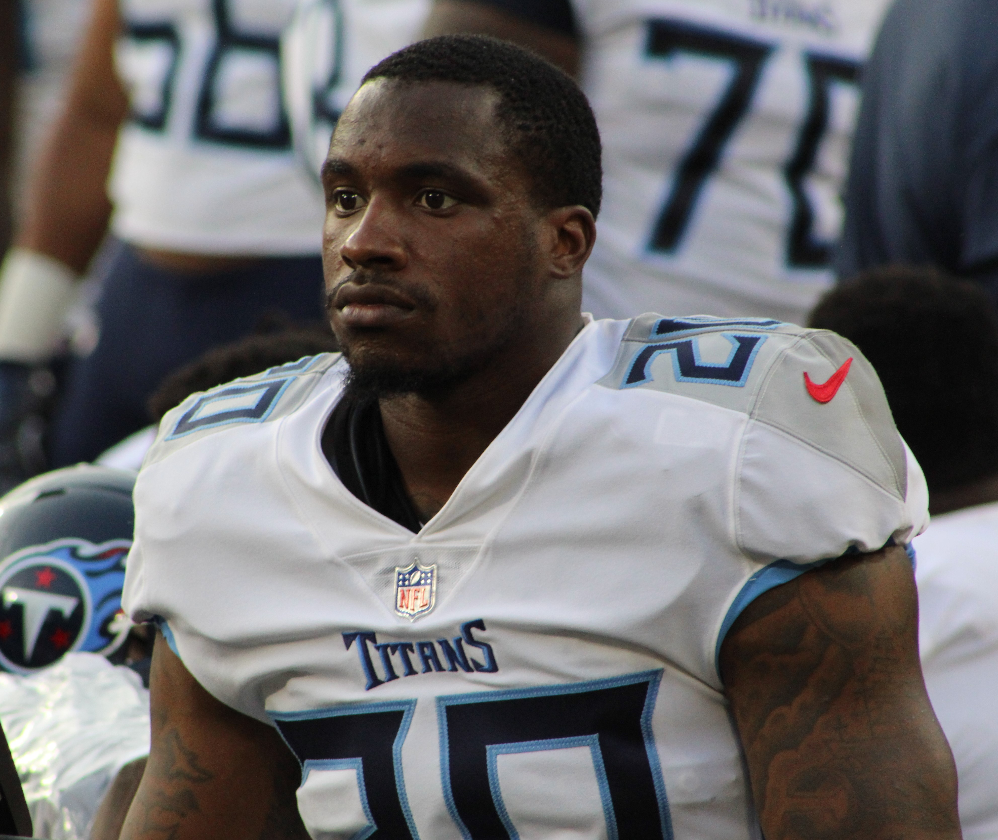 Demontre Hurst, Tennessee Titans at Green Bay Packers (Preseason), August 9, 2018